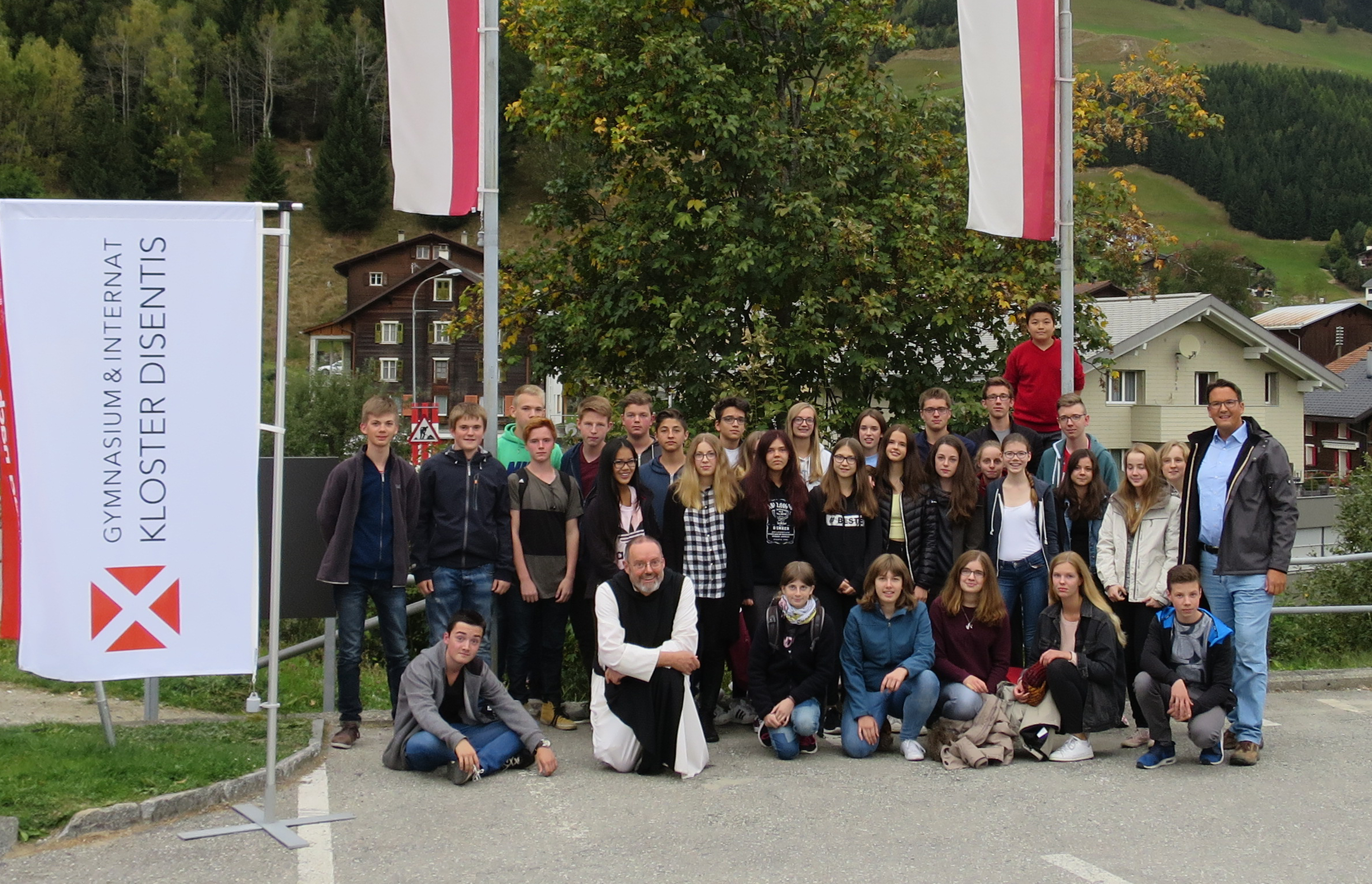 Die Marienstatter Gruppe während eines Treffens der Deutschsprachigen benediktinischen Jugend (DeBeJu) in Disentis (Schweiz)